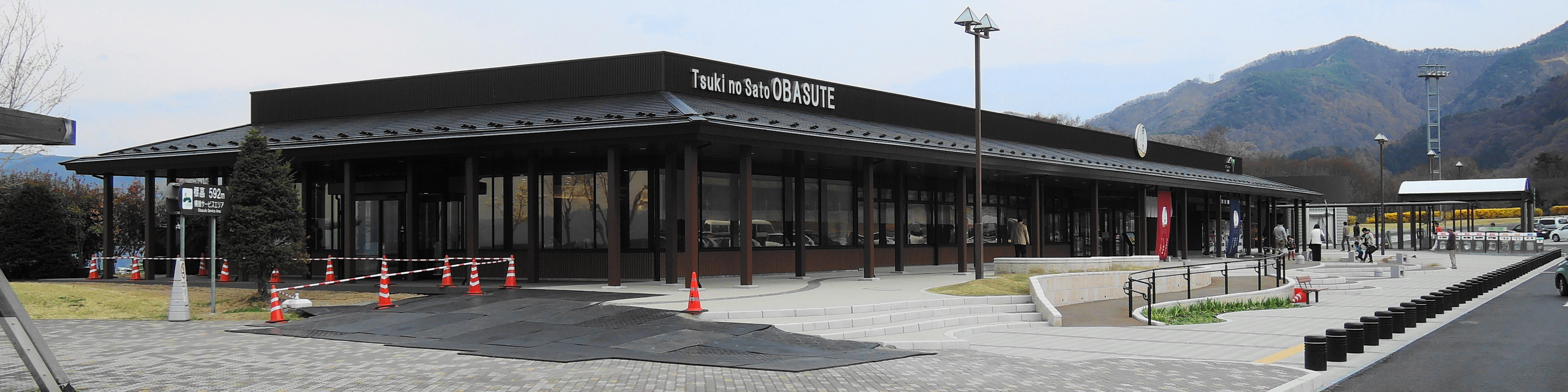 Obasute Service Area nobori ,Nagano prefecture,Japan